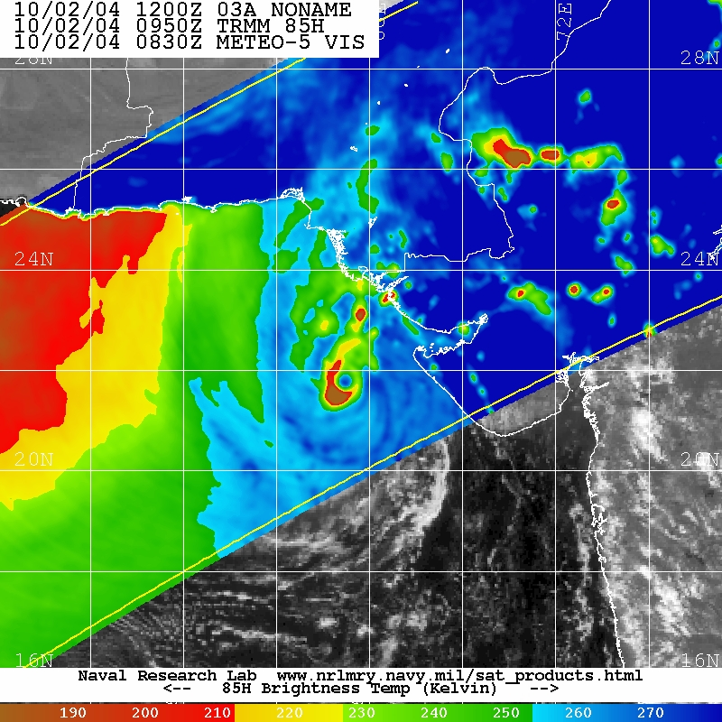 Microwave satellite image of Cyclonic Storm Onil on October 2, 2004 depicting a well-defined cyclone with a pinhole eye.